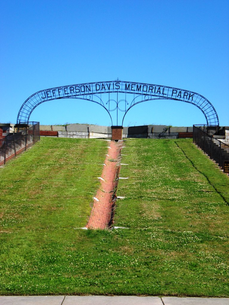 Jefferson Davis Memorial Park at Fort Monroe, Virginia.